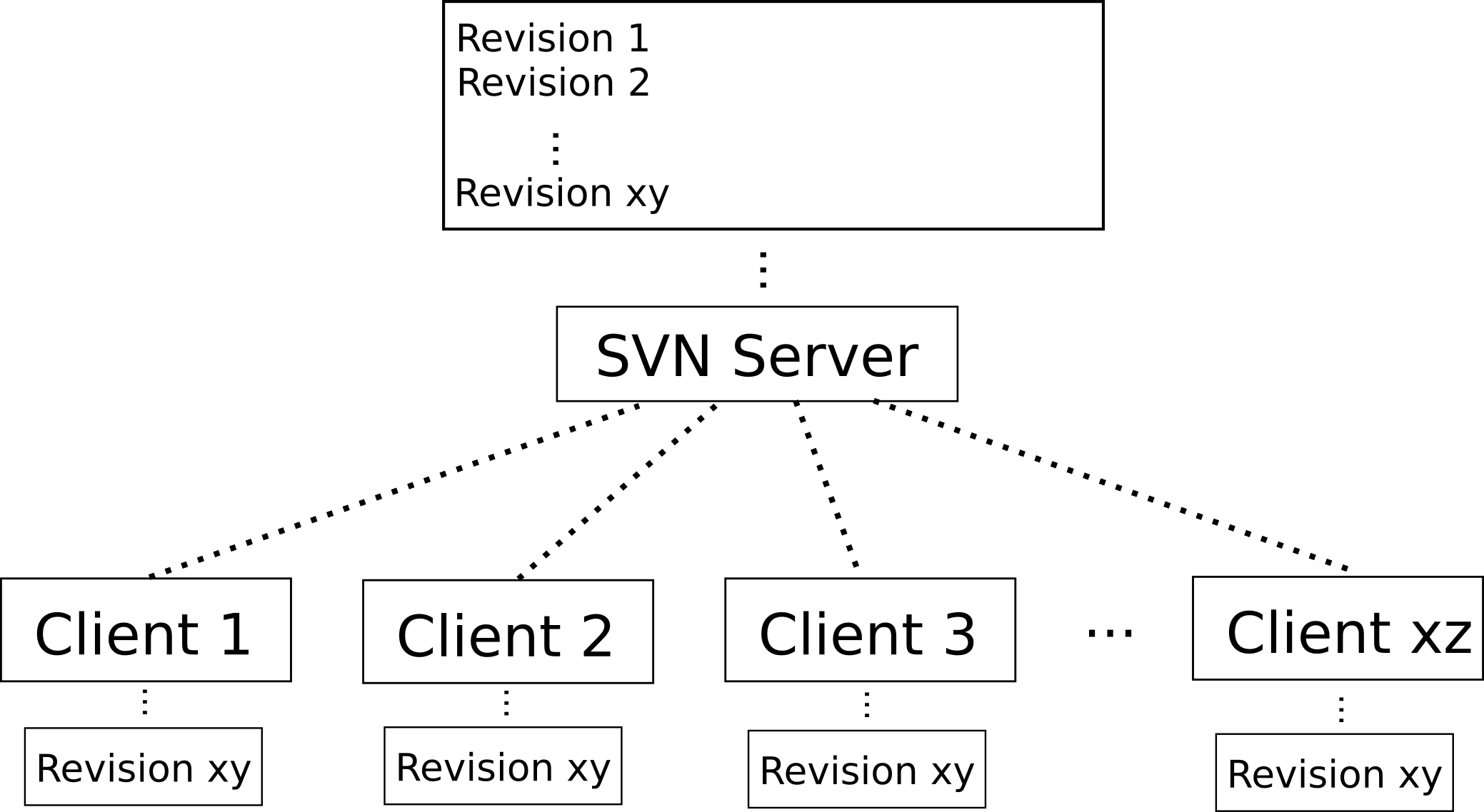 Relation of a subversion server and subversion clients.